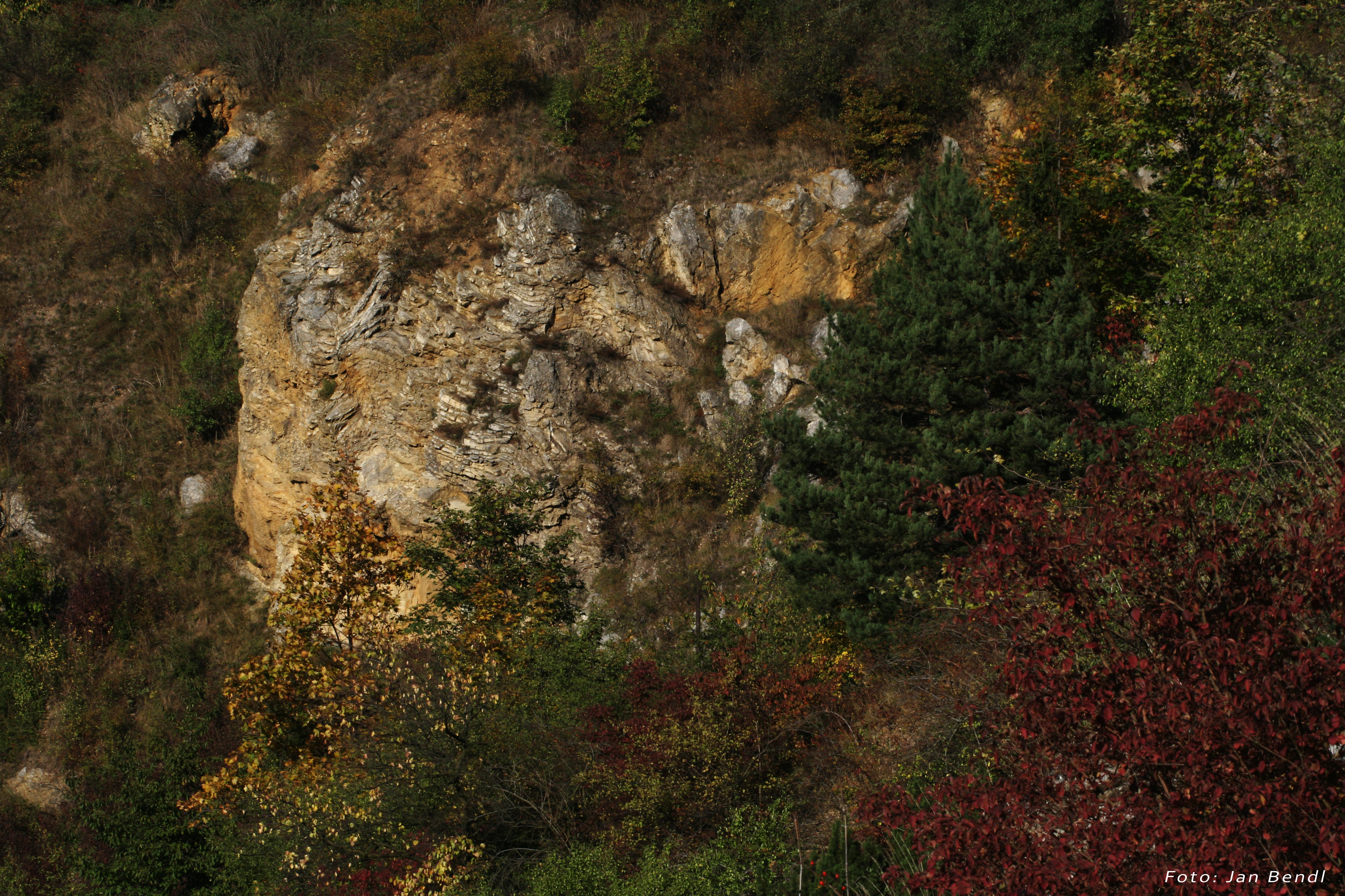 Natural monument Podolský profil in Prague, Czech Republic